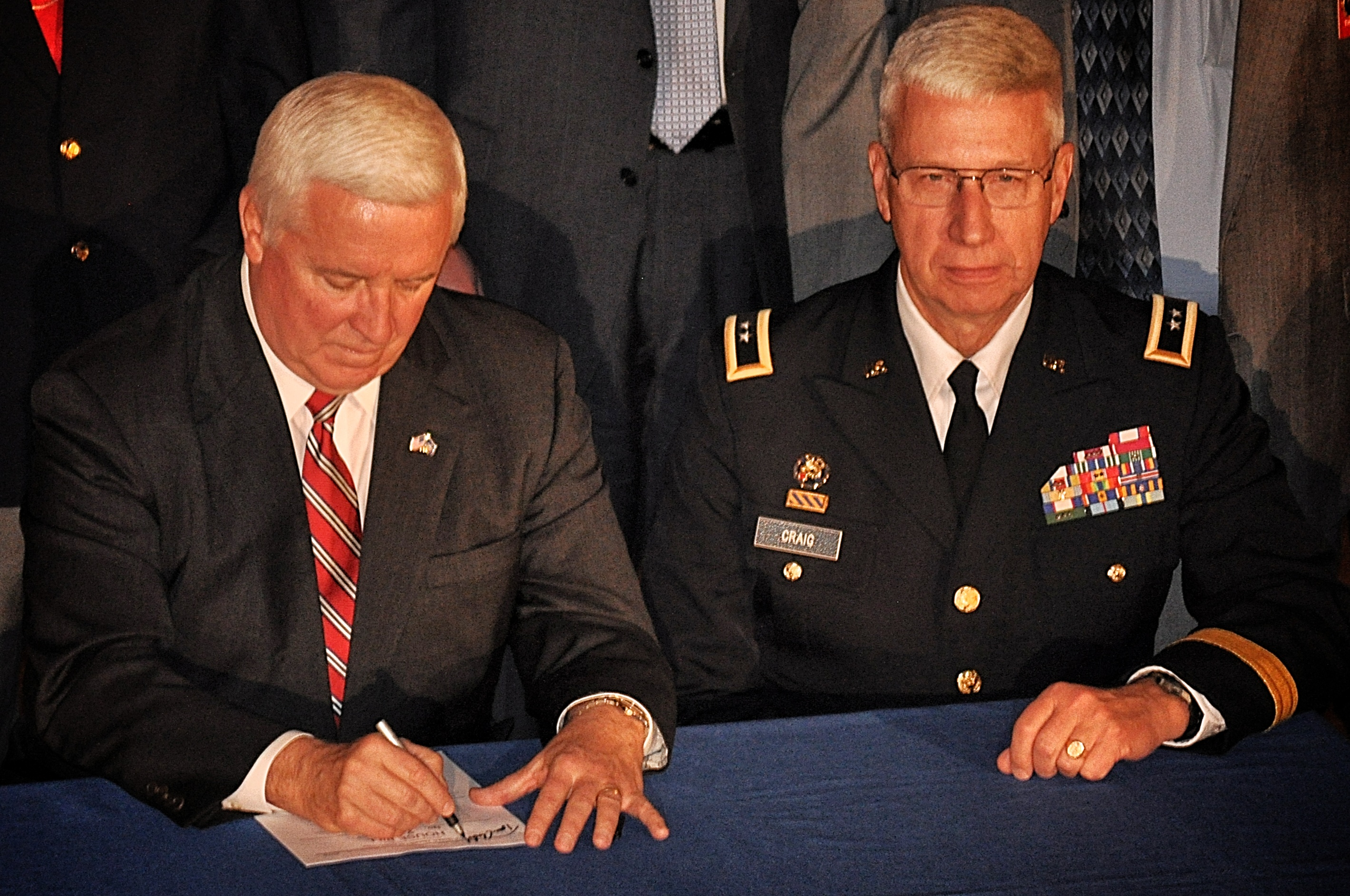 FORT INDIANTOWN GAP, Pa. -- Pennsylvania Governor Tom Corbett was joined by Maj. Gen. Wesley Craig, Pennsylvania National Guard members, and legislators as he signed bills into law designed to benefit PA veterans and National Guard members. The ceremonial signing was held at the installation's Keystone Conference Center Nov. 12, 2012. A summary of the bills signed into law can be viewed at j.mp/W4Njz4. (Pennsylvania National Guard photo by Maj. Ed Shank/Released)